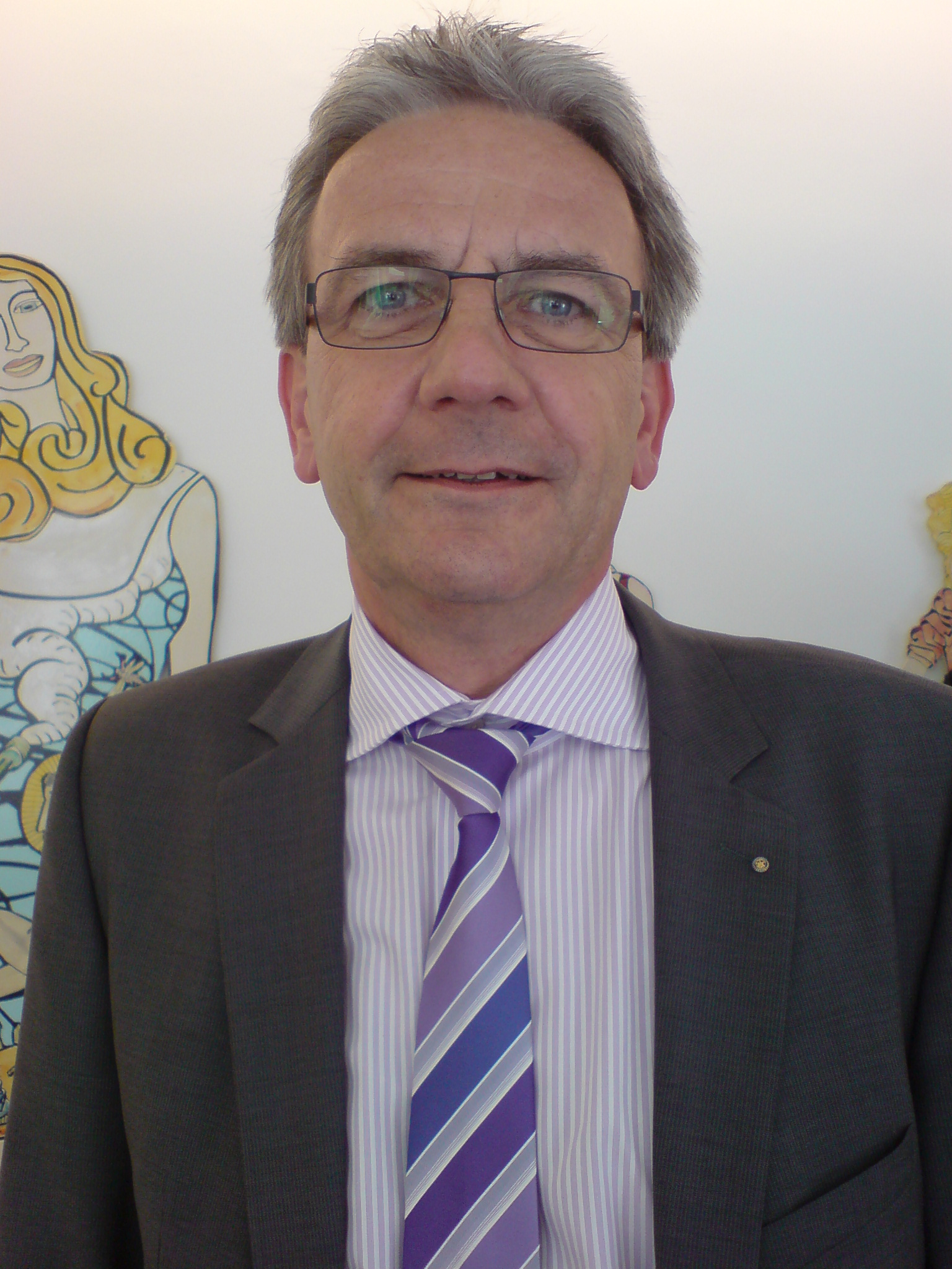 Personality rights warning Although this work is freely licensed or in the public domain, the person(s) shown may have rights that legally restrict certain re-uses unless those depicted consent to such uses. In these cases, a model release or other evidence of consent could protect you from infringement claims.